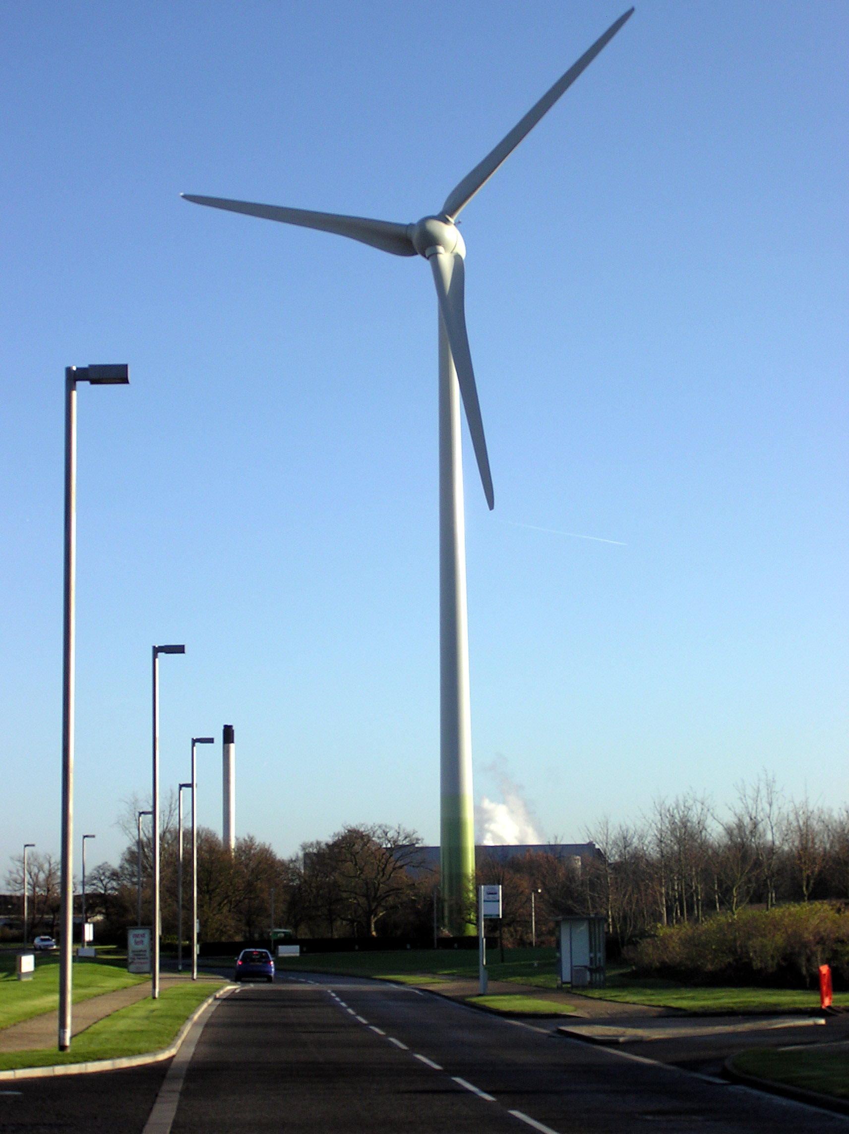 A wind generator at Junction 11 of the M4 motorway, at Greenpark industrial estate, near Reading, Berkshire, England. Construction finished in November 2005. The turbine supplies approx 1000 homes (up to 1,500 local homes and businesses). The turbine on top of the 85 m (279 ft) tower is the German-made Enercon E-70. The three fibreglass blades are each 33 m (108 ft) long, rotating at 6 to 21 rpm depending on wind speed. Maximum power output of 2.05 MW is reached at a wind speed of 14 m/s (31 mph) then remains constant with increasing wind speed. The hub is kept facing into wind. At a pre-determined high wind speed the blades cease rotation.